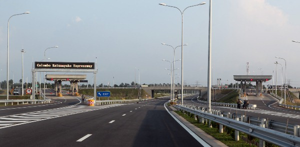 Ja-ela interchange